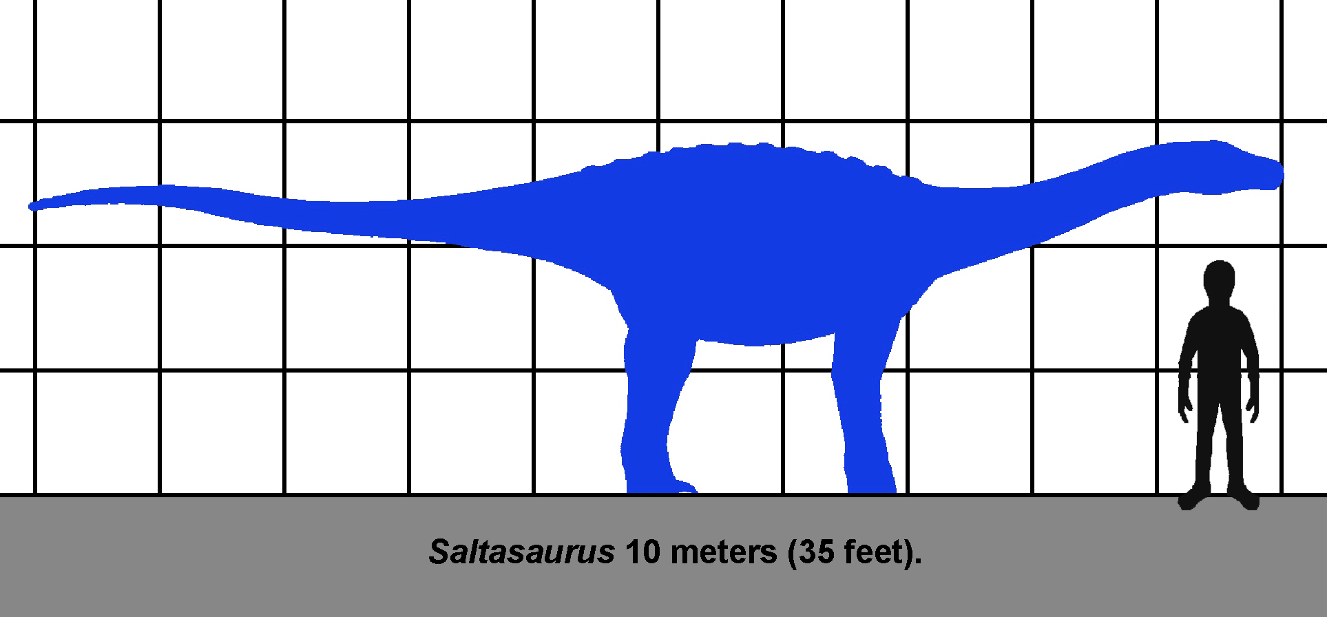 Size comparison between the sauropod dinosaur Saltasaurus loricatus and a human.